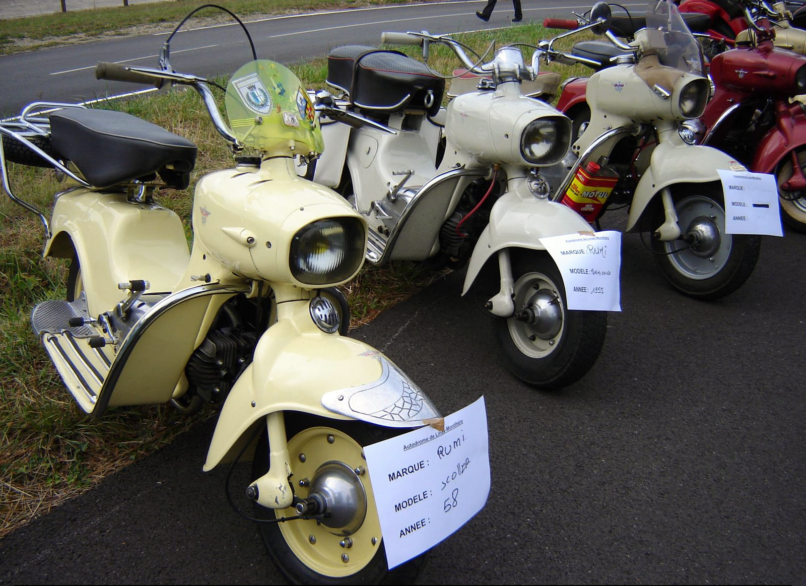 A colony of Rumi Formichino ("Little Ant") scooters at the 2009 Autodrome Héritage Festival, Linas-Montlhéry